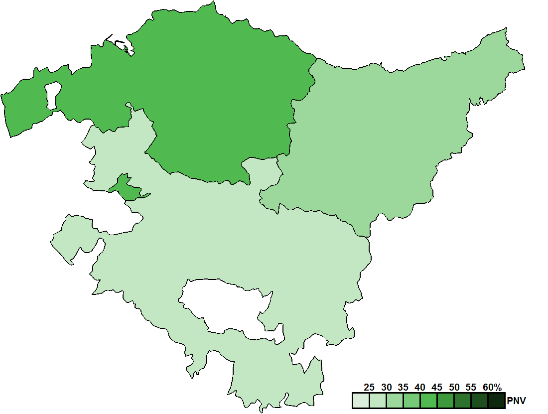 Provincial results for the 2016 Basque regional election.